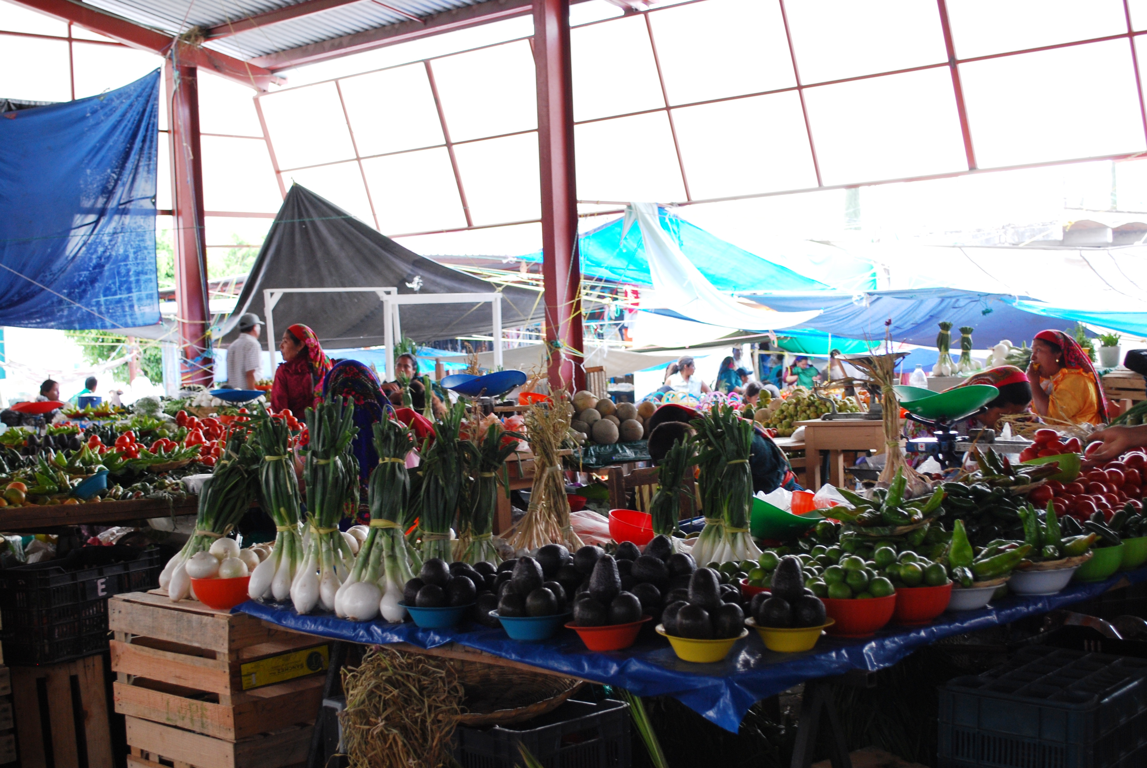 Fruits and vegetables for sale in the municipal market of Tlacolula, Oaxaca, Mexico